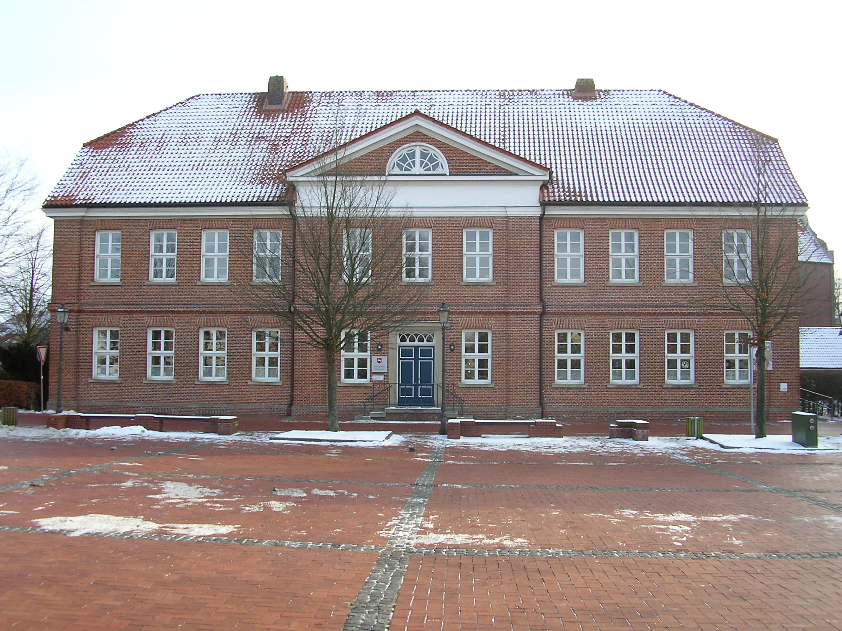 Wittmund, courthouse